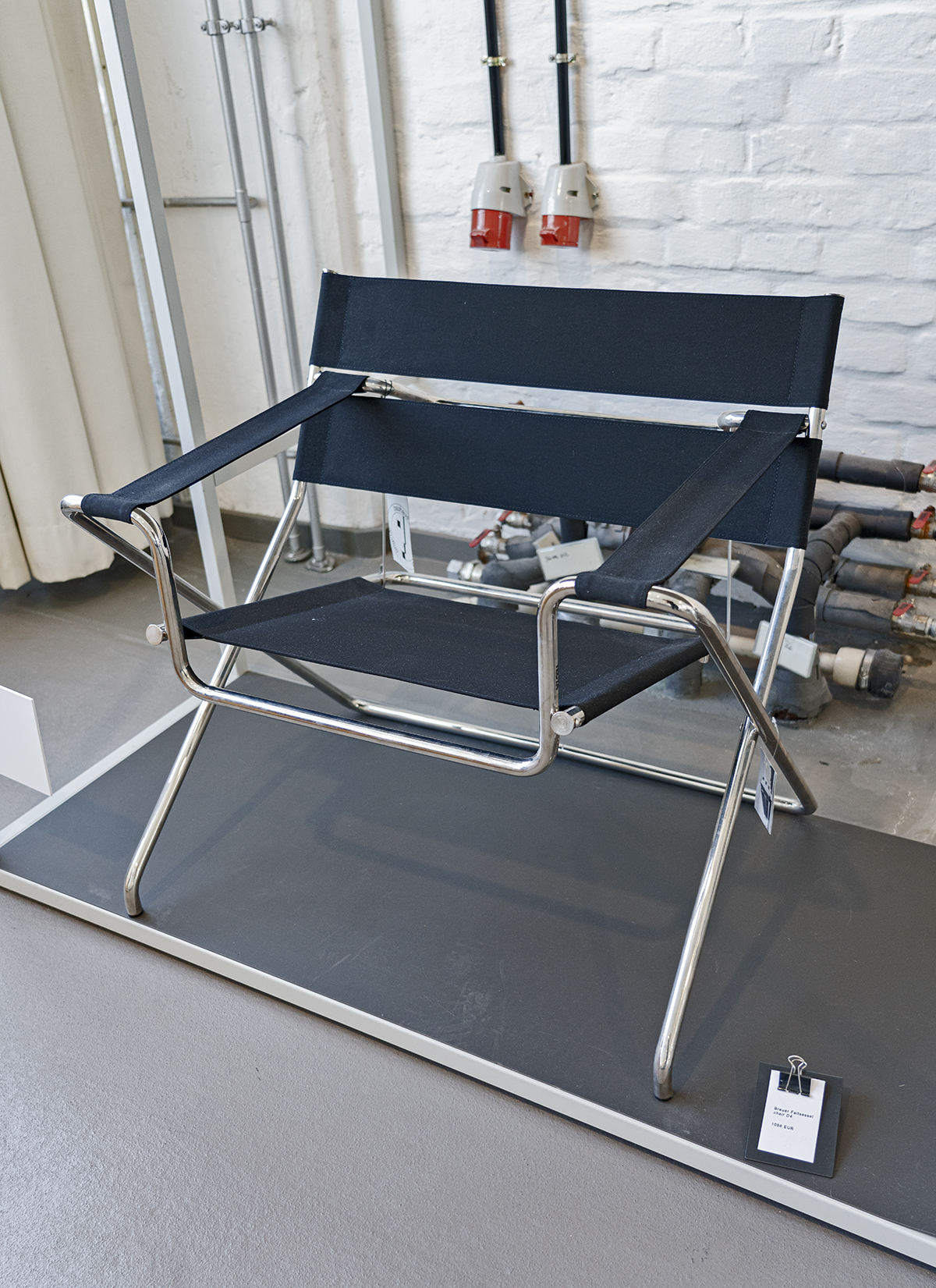 Developed as an outdoor folding chair counterpart to the 'Wassily Chair'. It appeared in the inaugural catalog of tubular steel furniture pieces.